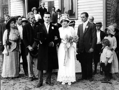 James Vincent (left), Valentine Grant (center) in the film Nan O' the Backwoods (1915).